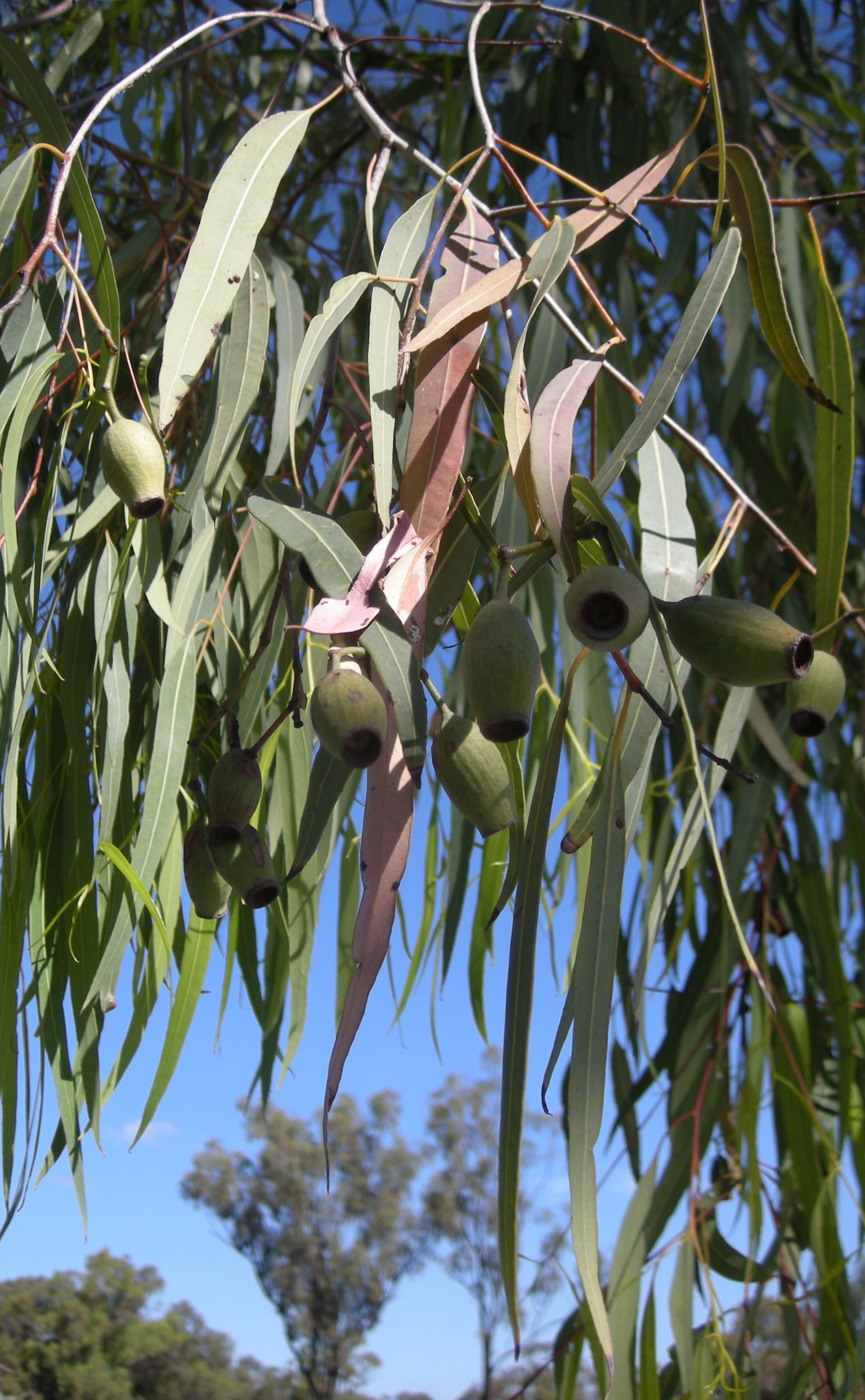 Corymbia clarksoniana capsules and foliage, Mount Archer National Park, Rockhampton